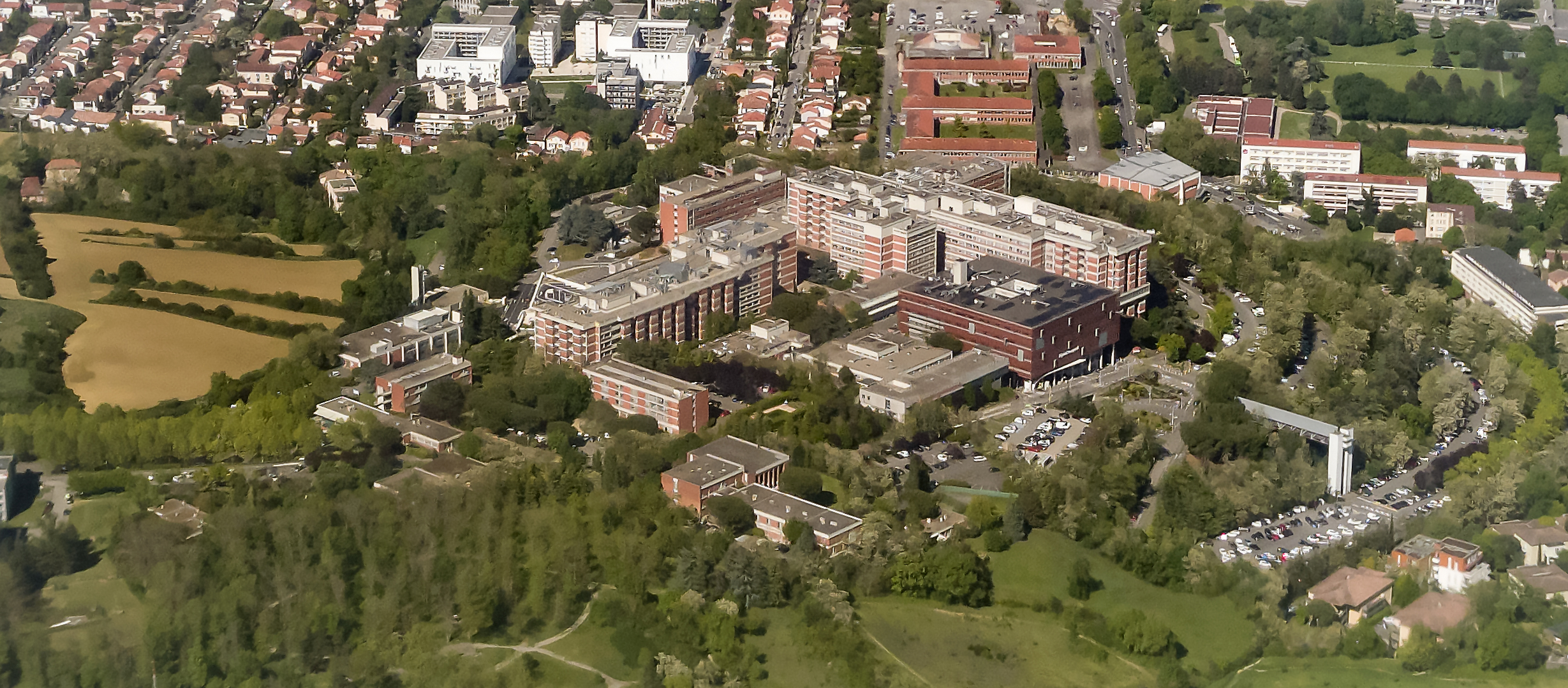 Aerial view of the University Hospital of Toulouse Rangueil